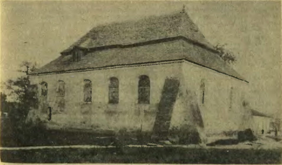 Synagogue in Zwoleń before II World War